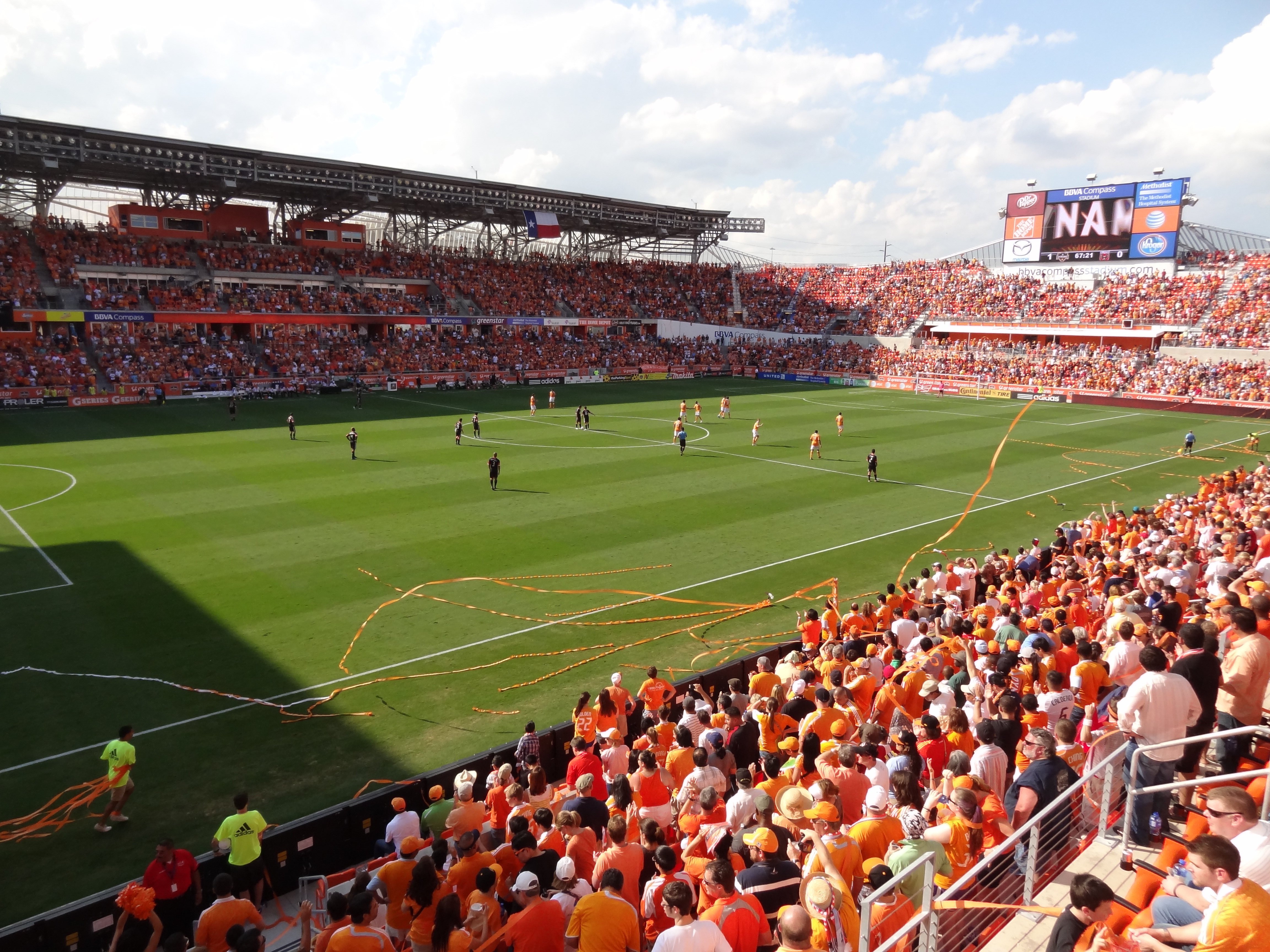 Photo by Paul Duron, Inaugural match on May 12, 2012 between DC United and the Houston Dynamo after Dynamo Brad Davis scores the first and only goal of the match before a sellout crowd of 22,039.